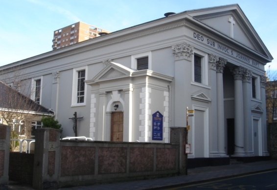 St John the Baptist Roman Catholic church, Kemptown, Brighton, England.